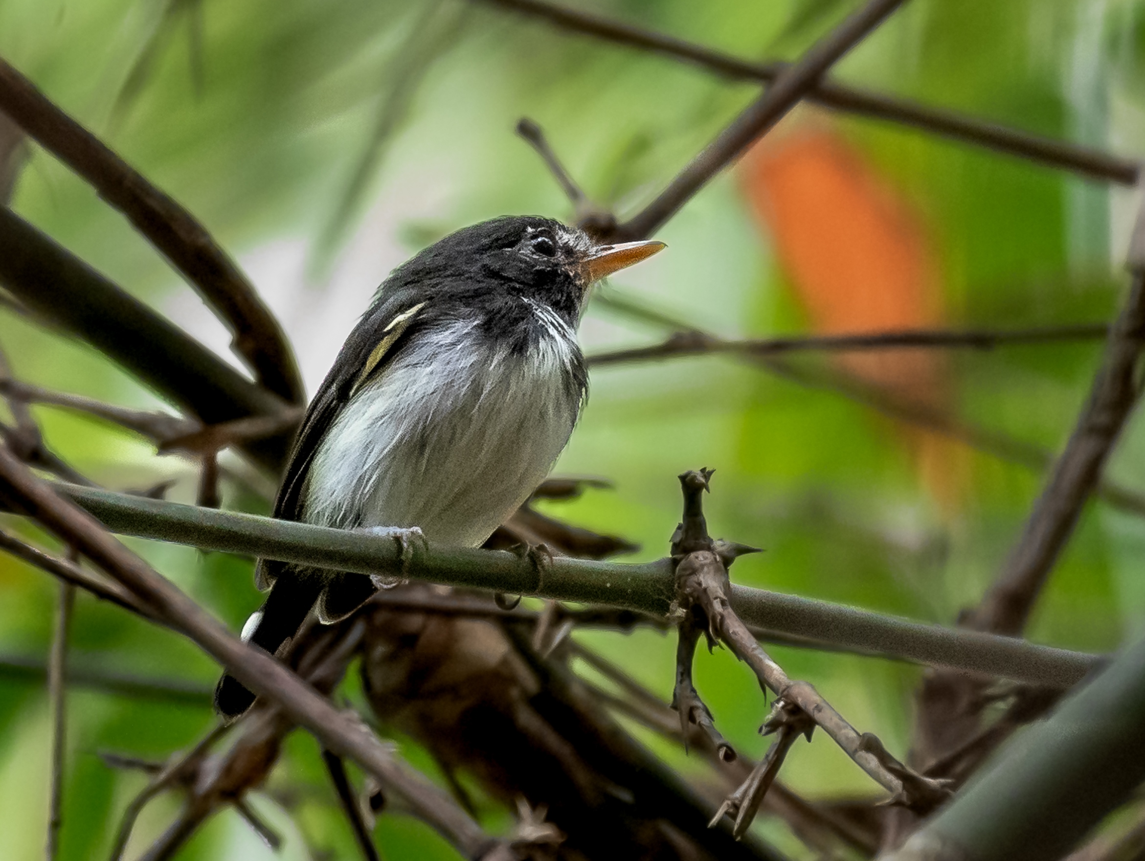 Black-and-white Tody-Flycatcher (male); Parauapebas, Para, Brazil